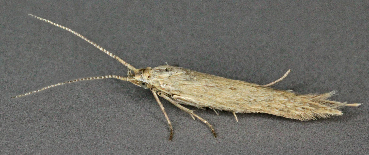 Coleophora versurella, Deeside, North Wales, July 2011